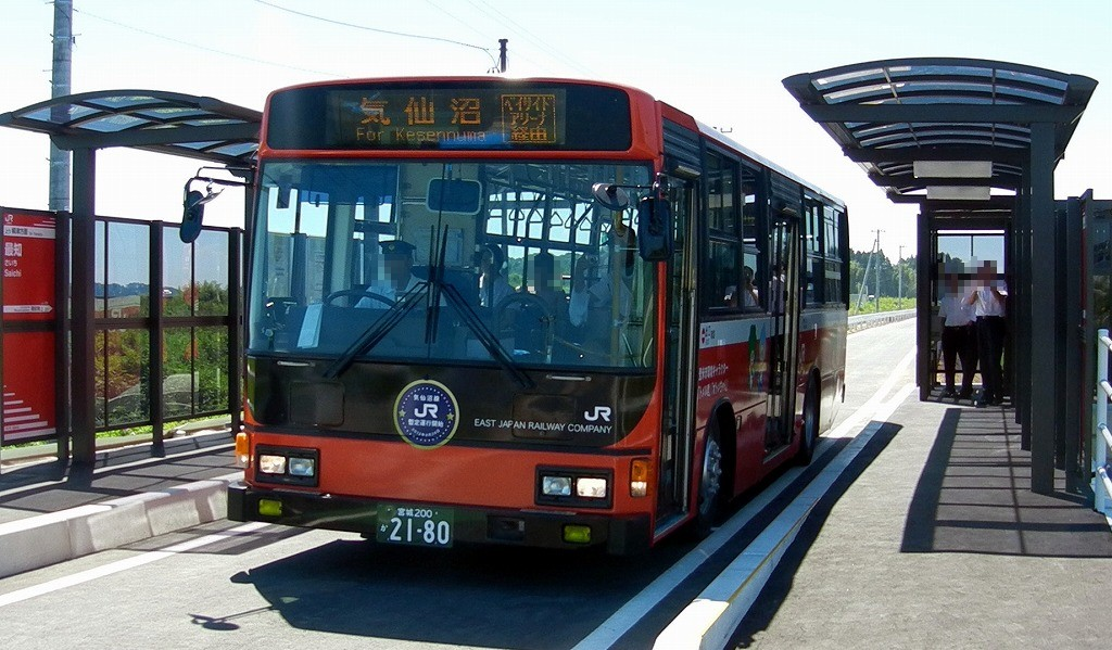 JR East Kesennuma Line BRT Saichi Station